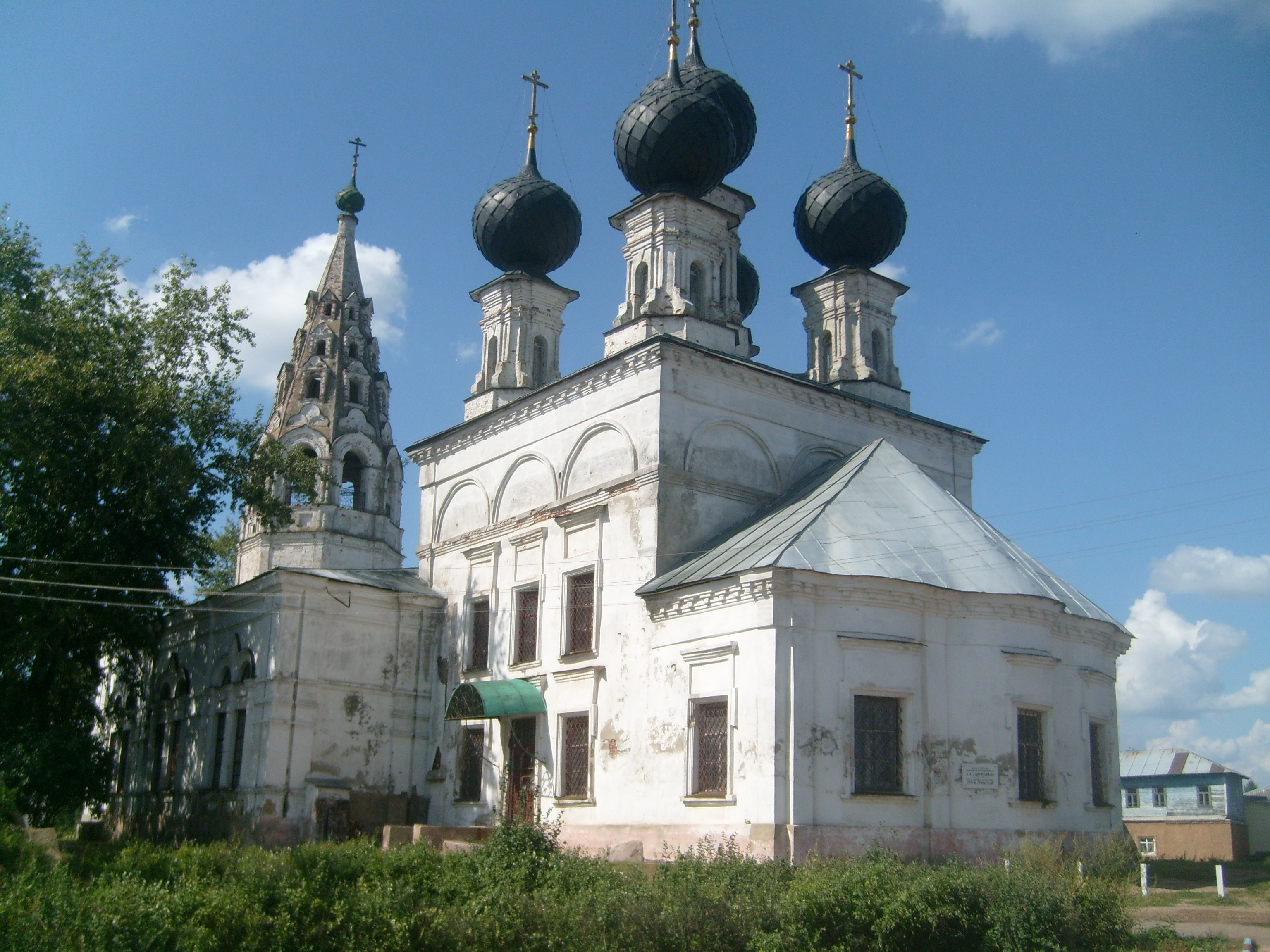 Церковь Воскресения в селе Сусанино.